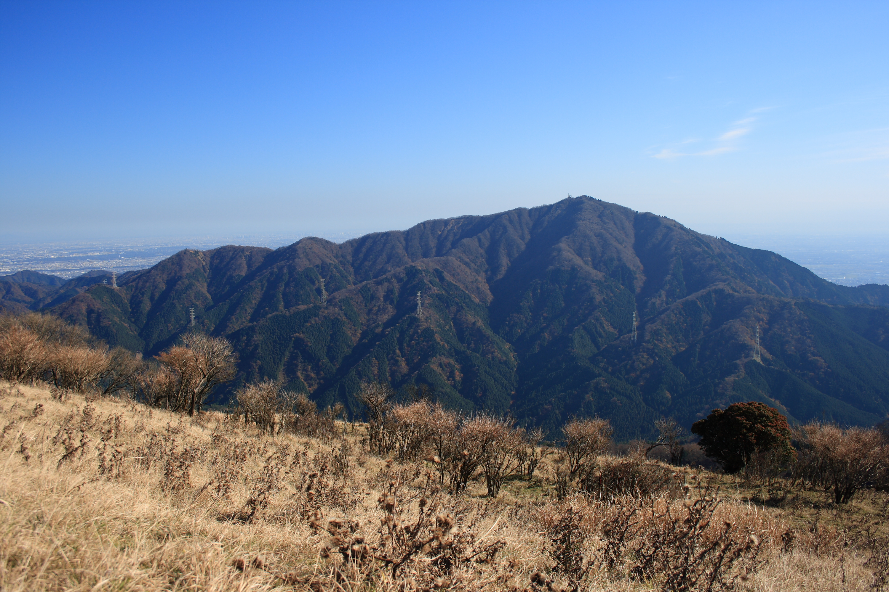 Mt. Ōyama seen from Mt. Sannotō, Kanagawa, Japan.